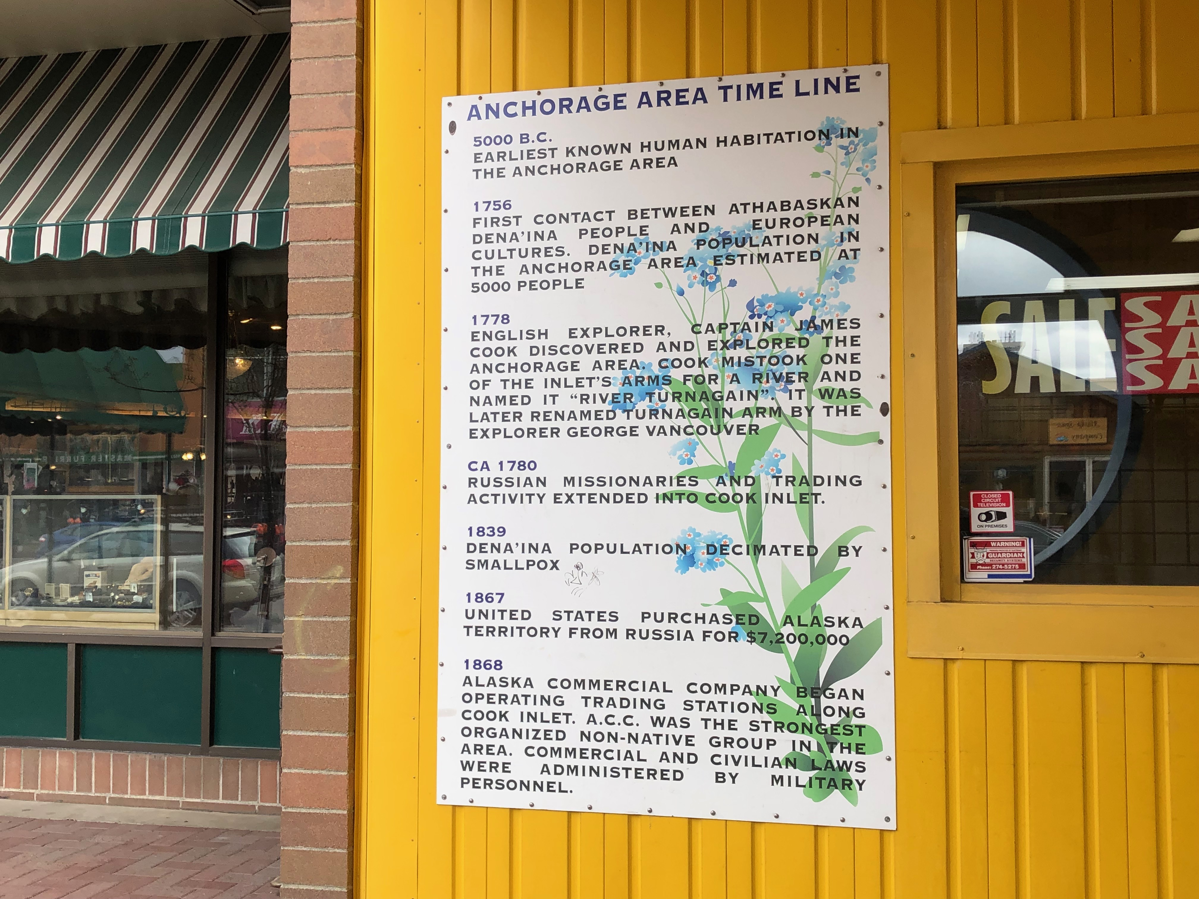 Around Anchorage